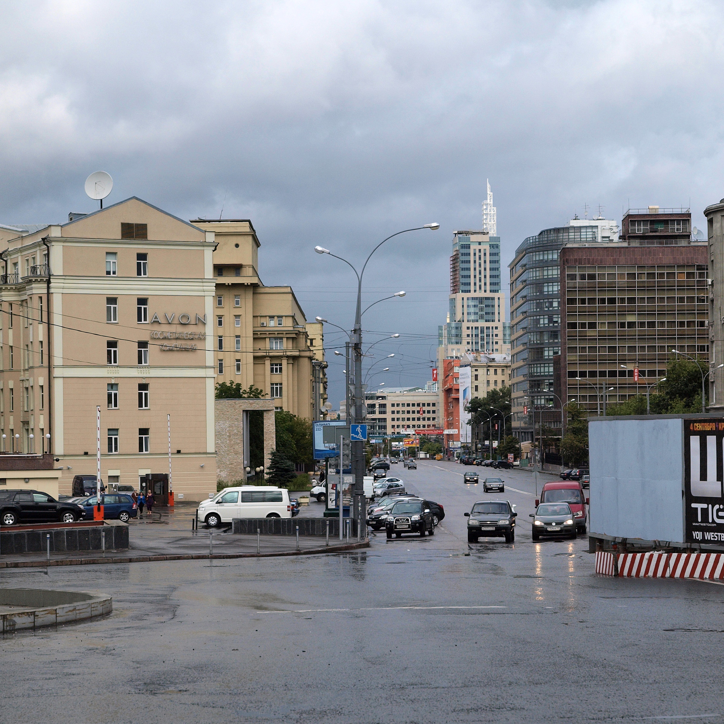 Beginning of Akademika Sakharova avenue, Moscow.